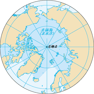 Arctic Ocean map